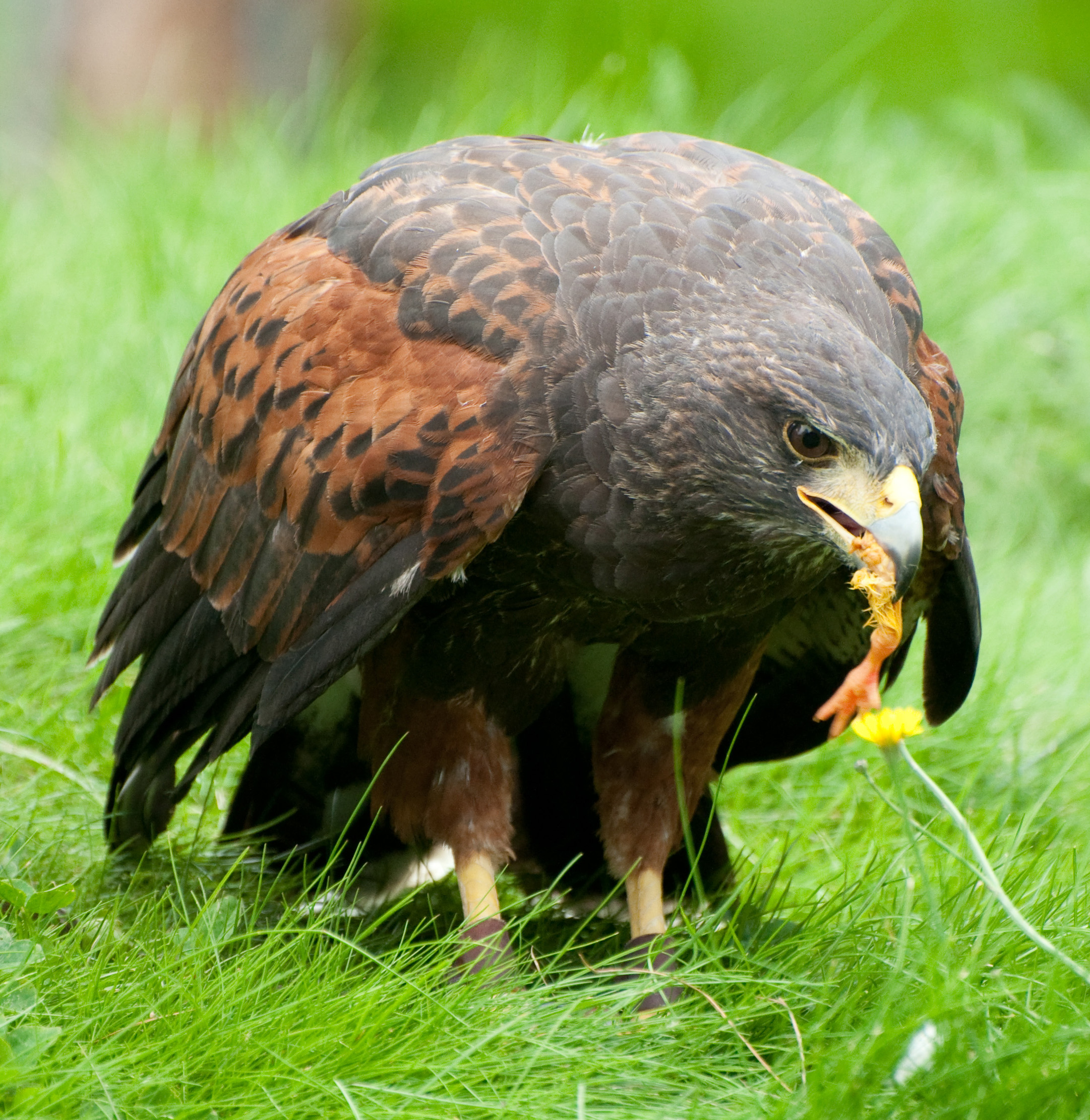 Harris's Hawk being with chick leg